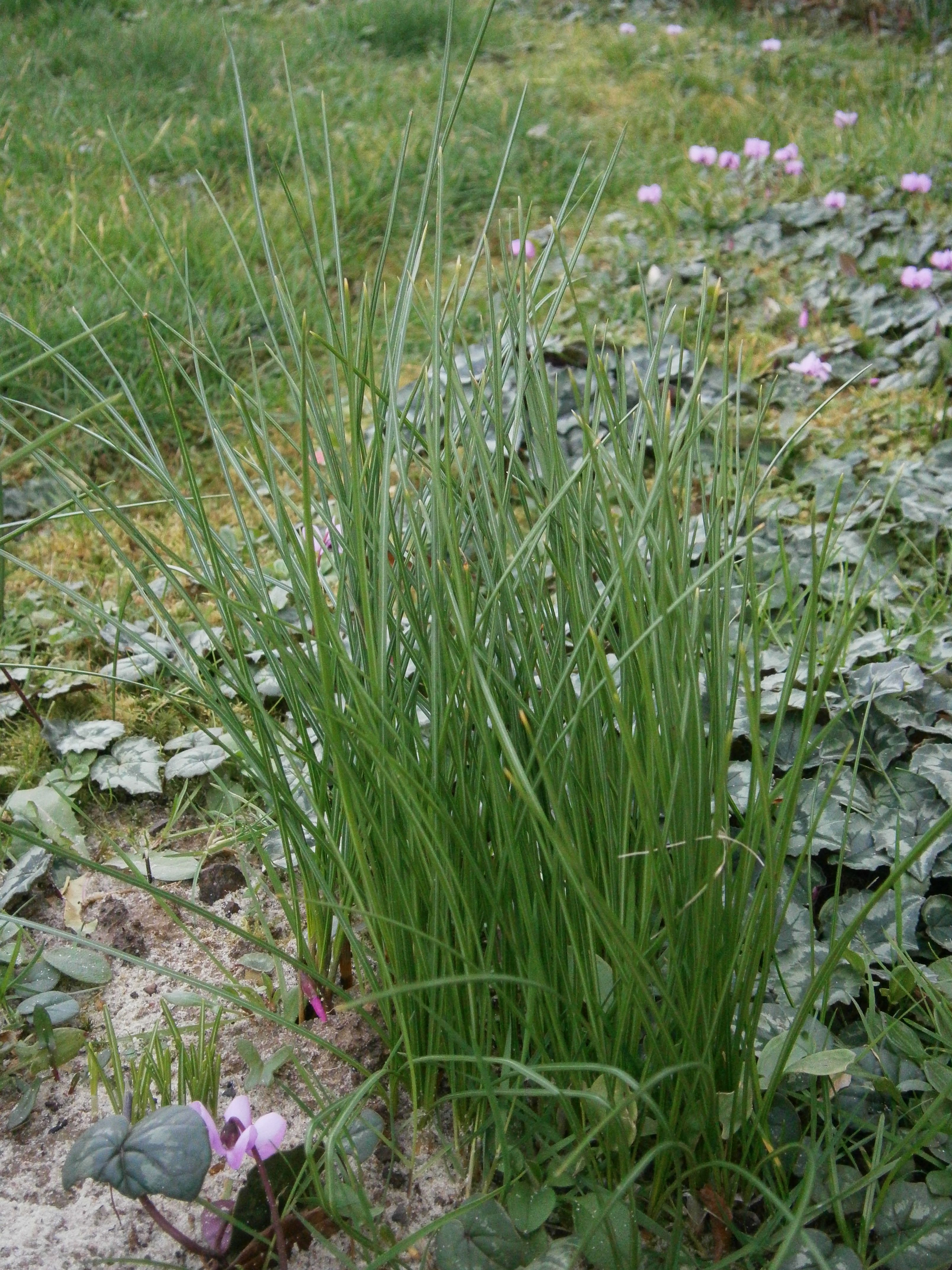 Crocus cartwrightianus 'Albus' leaves